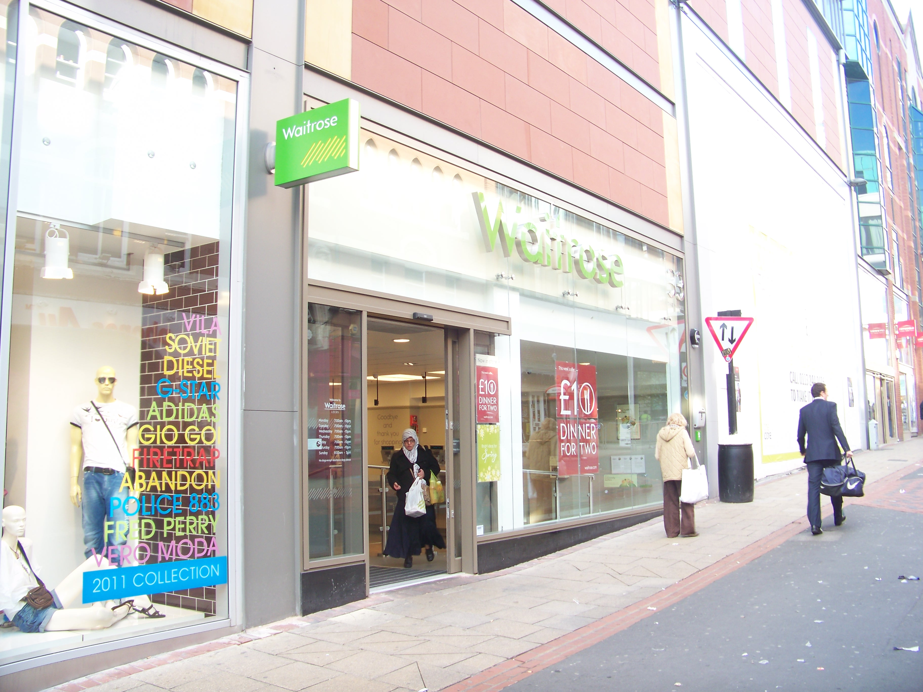 Waitrose, Lands Lane, Leeds. Taken on the afternoon of Monday the 11th of April 2011.